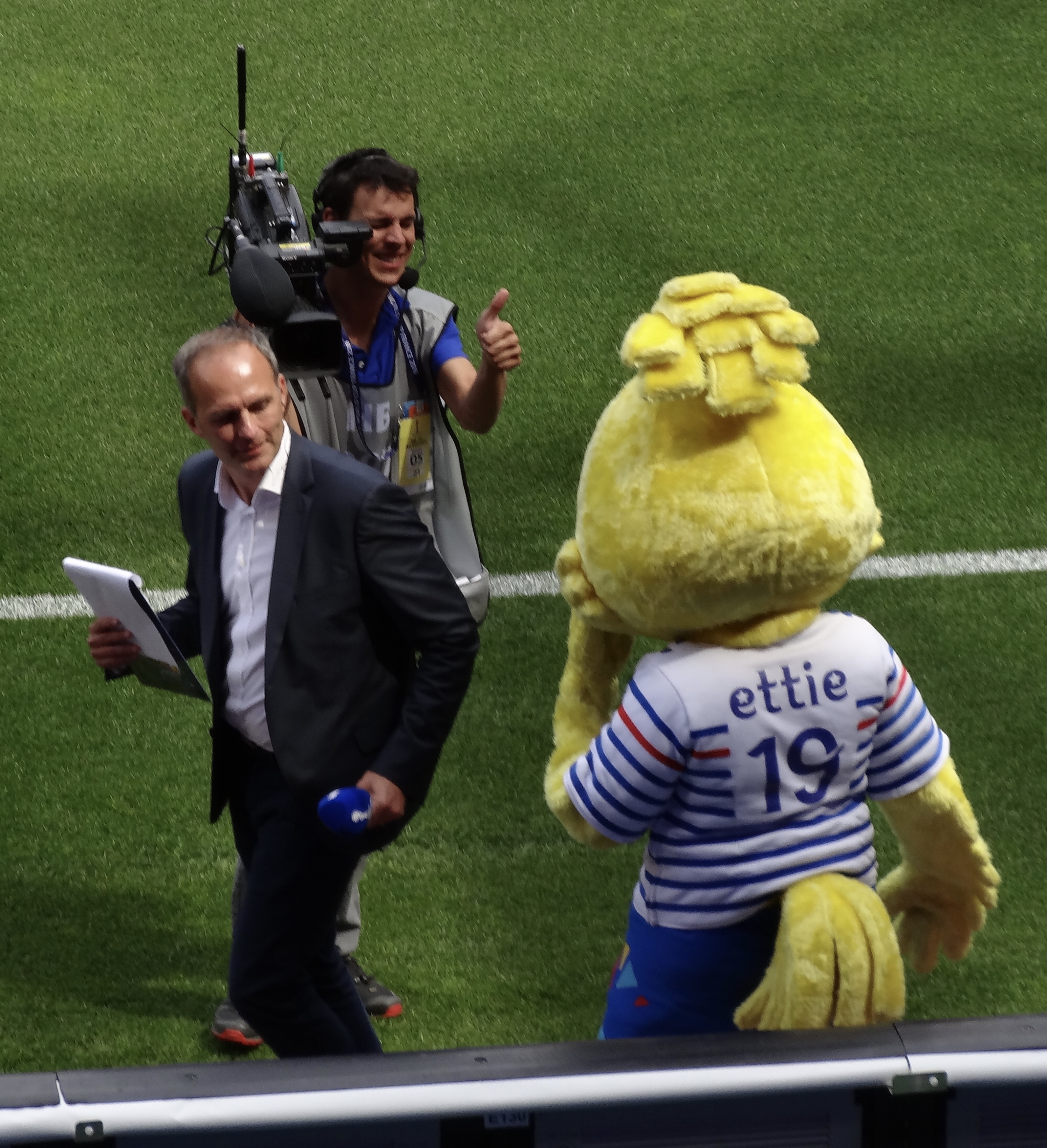 TV women world cup 2019